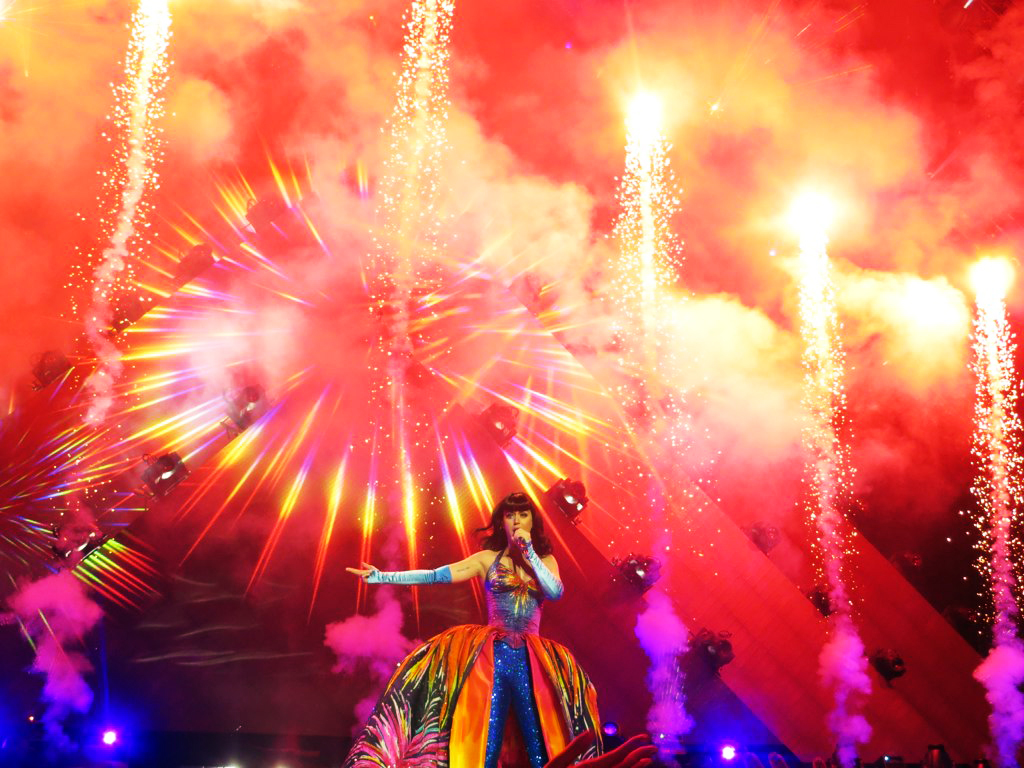 Katy Perry performing "Firework" at SSE Hydro, Glasgow, UK on 17 May 2014.